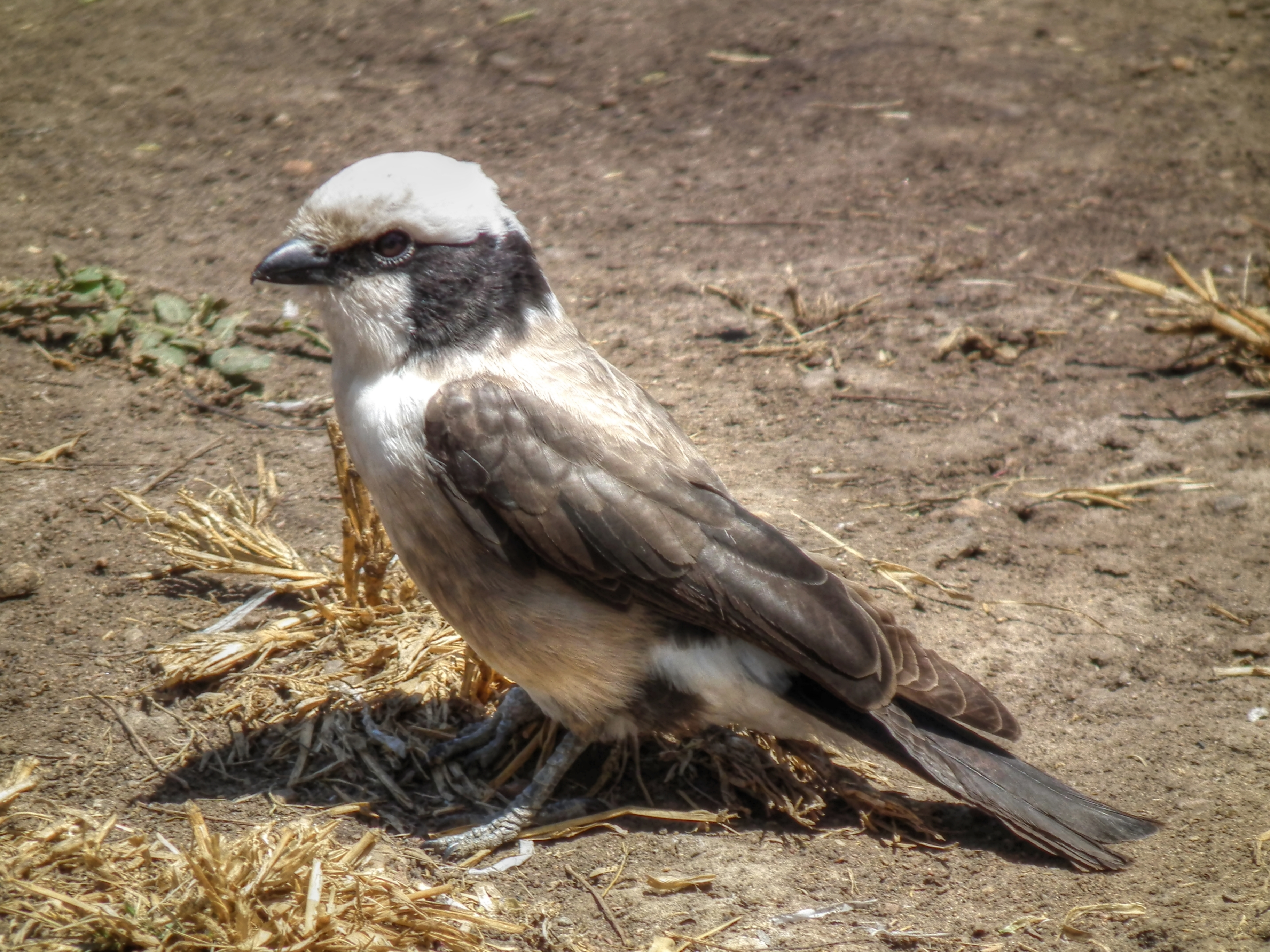 Northern White-crowned Shrike (Eurocephalus rueppelli), picture taken at, Tanzania